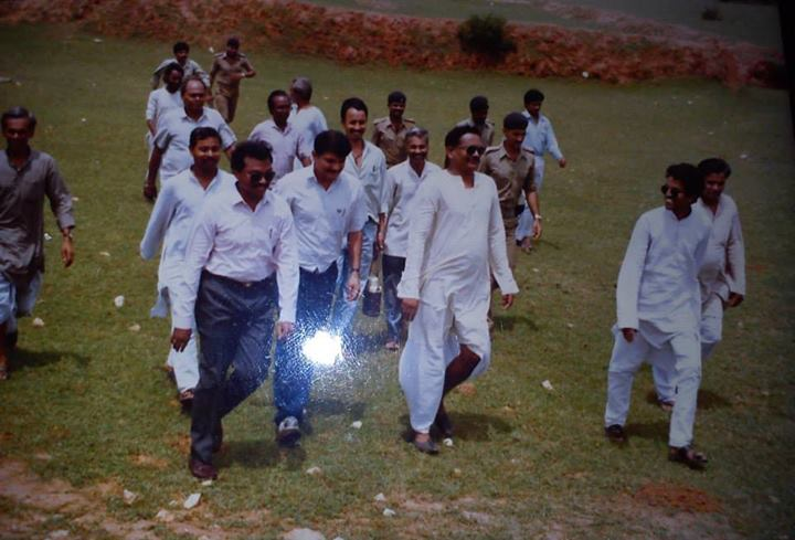 RAMDEO SINGH YADAV